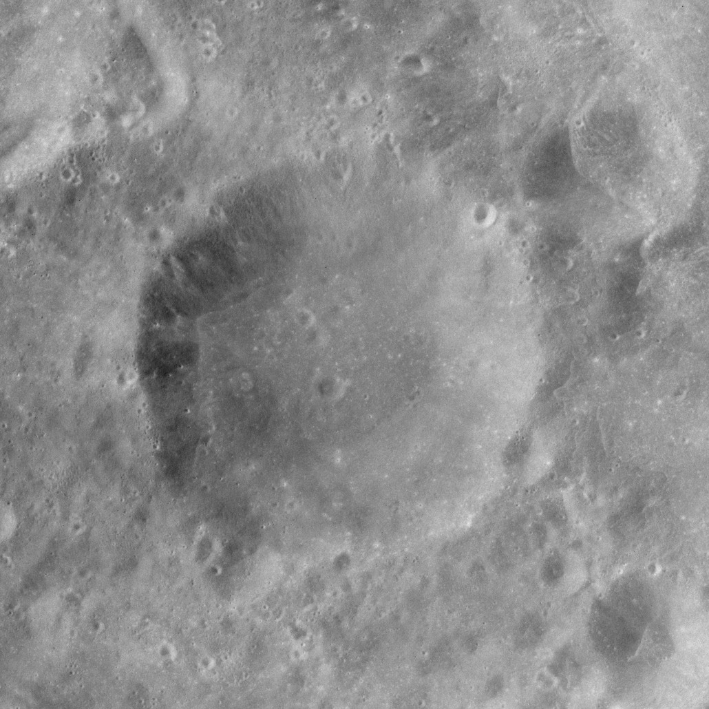 Viviani, on the far side of the moon. Sun elevation 50 deg., spacecraft altitude 119 km.